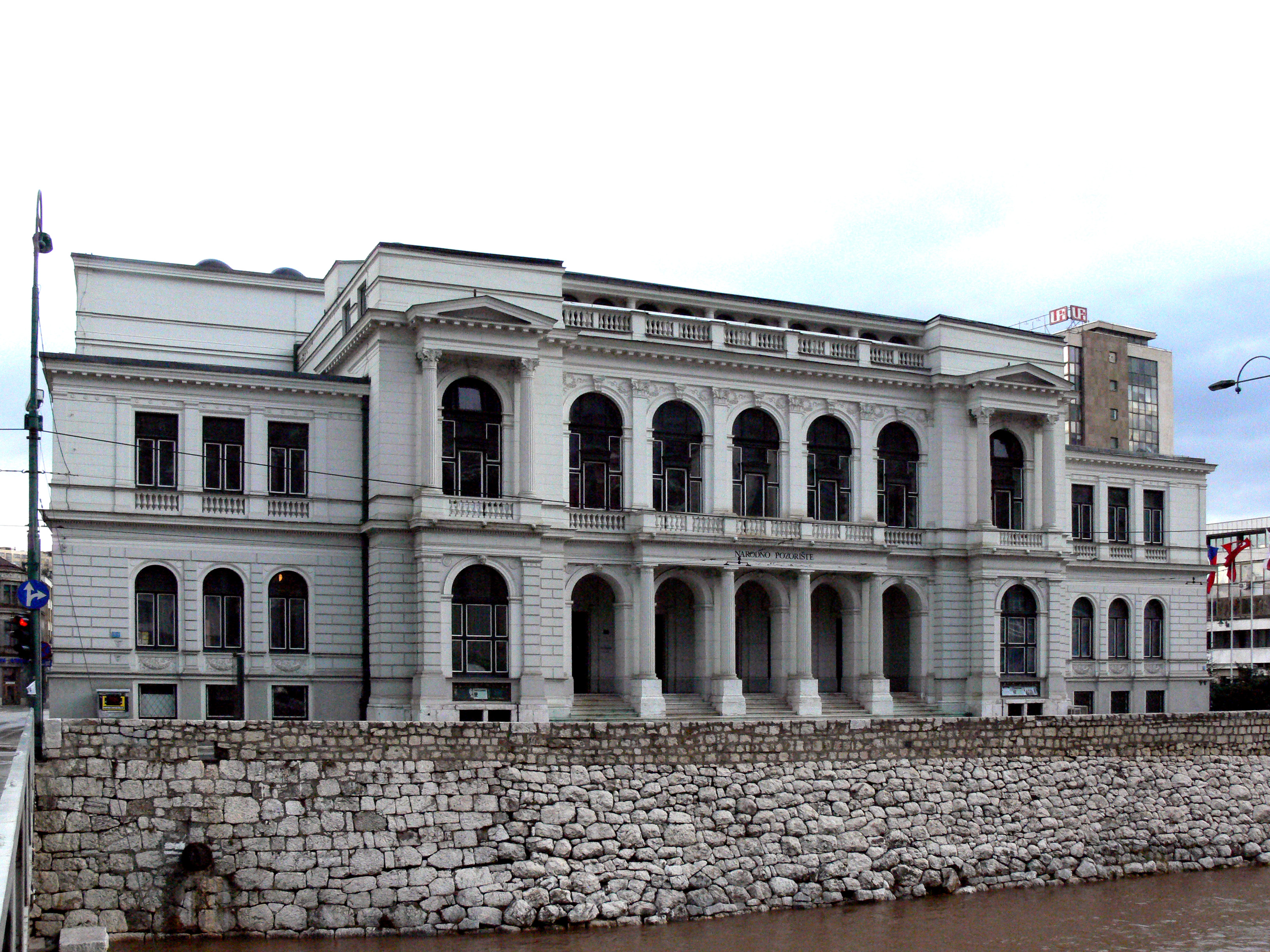 The theater in Sarajevo.